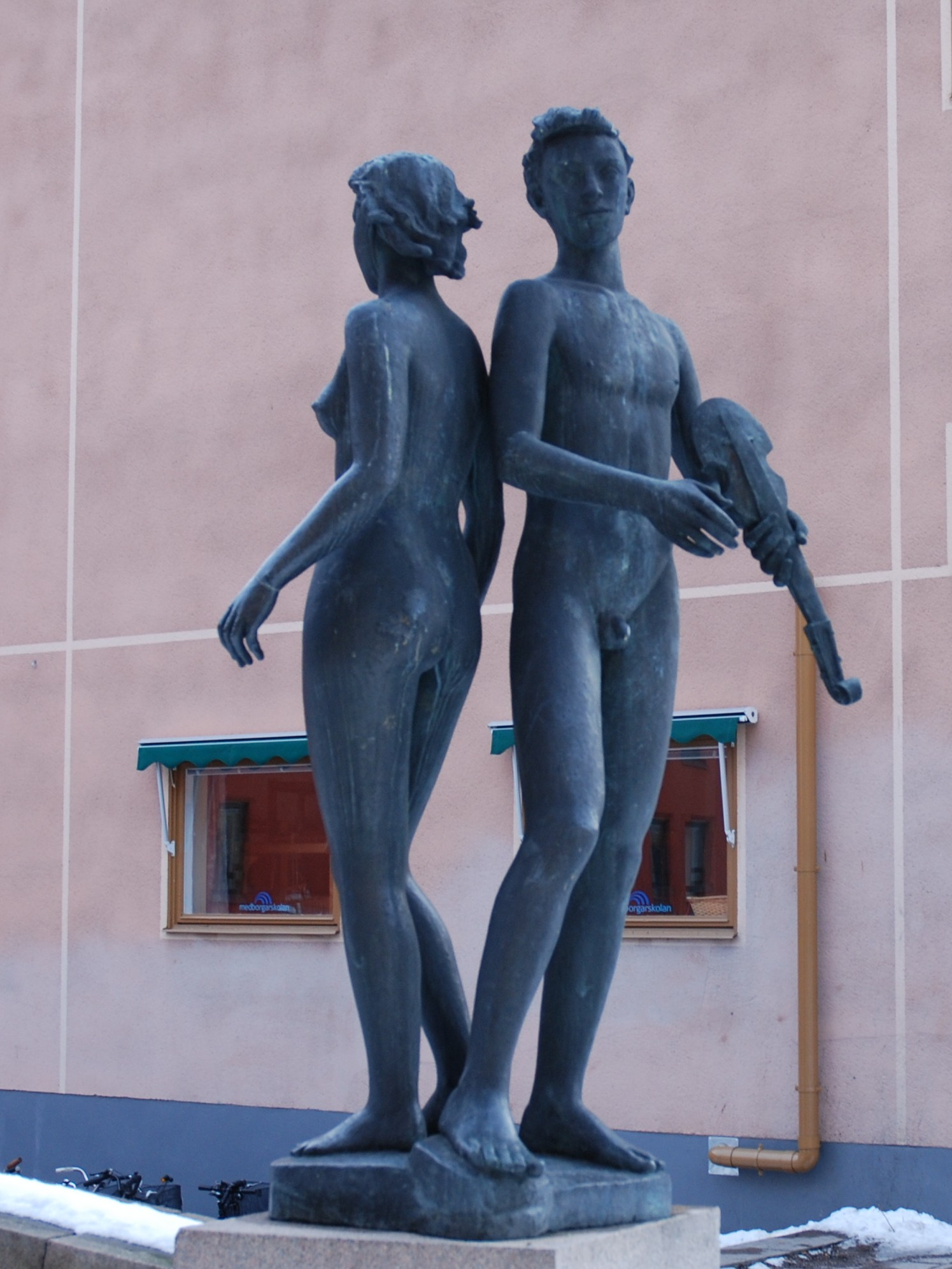 Folkvisan by Swedish sculptor Axel Wallenberg (1898-1996), Uppsala, Sweden . Photo: Bengt Oberger